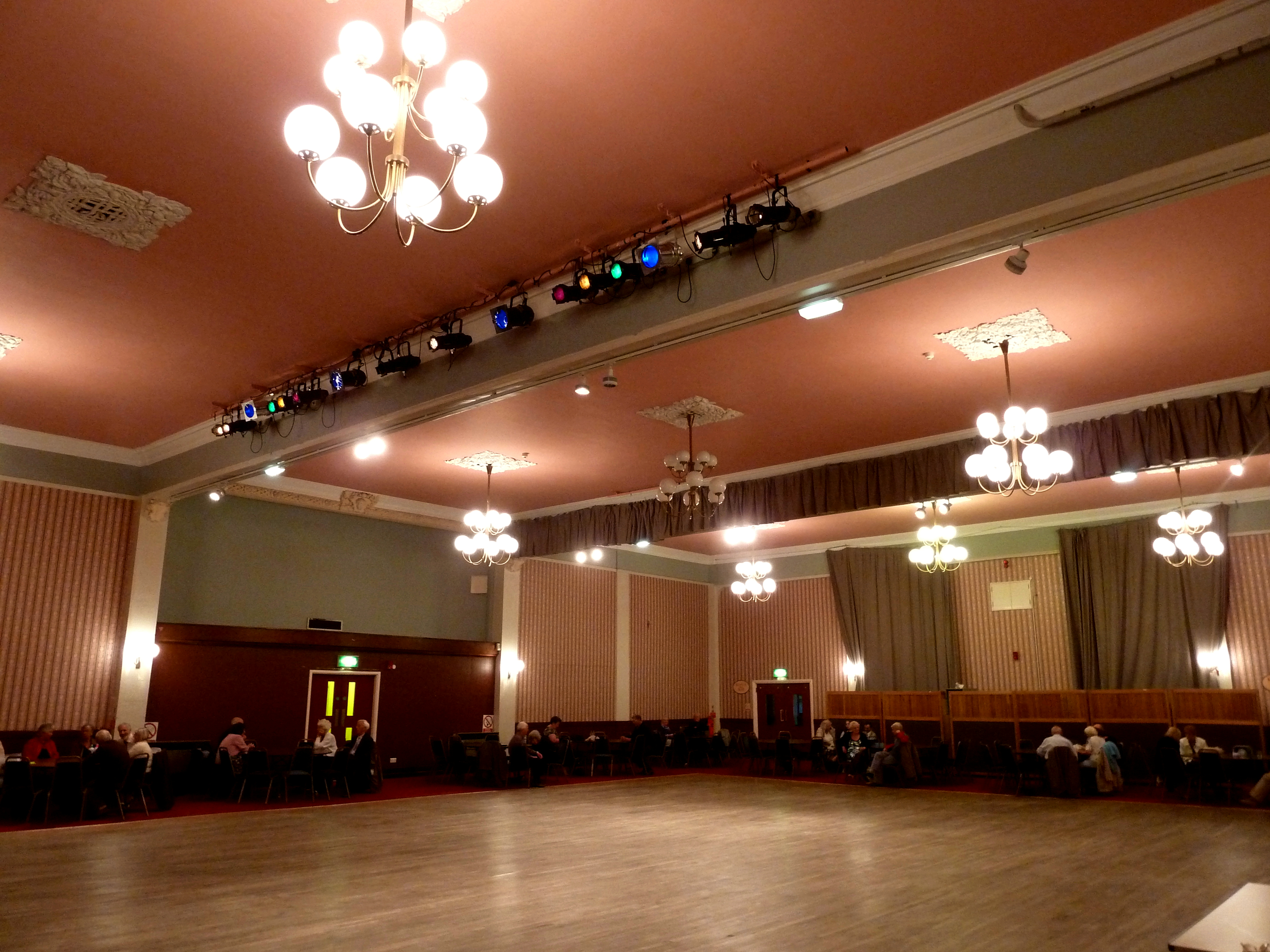 Kings Hall, Herne Bay, Kent England. Hall, looking towards south-west corner, showing back of hall and exit towards Downs.